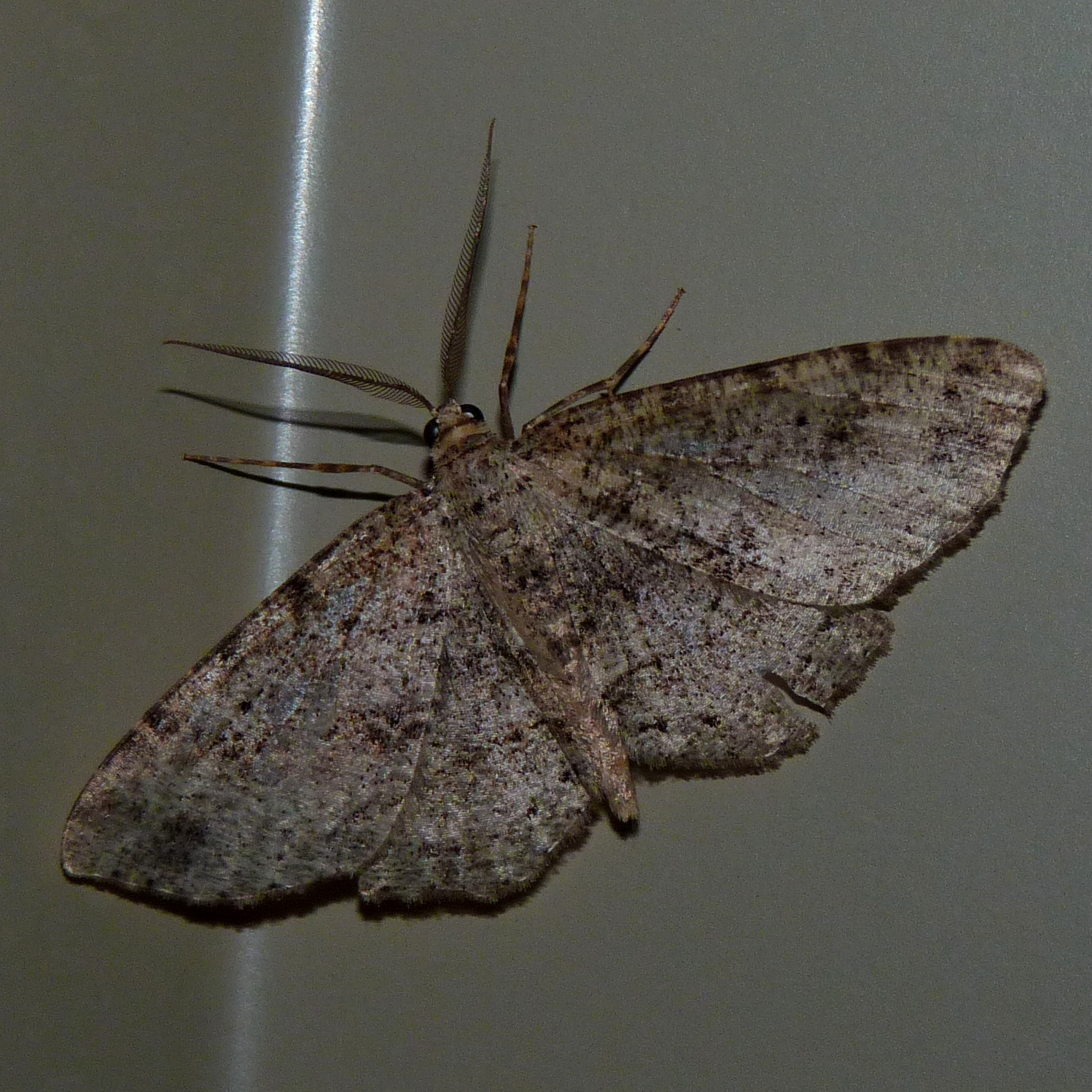 I think this is a Hesperumia latipennis, though identification is difficult because many of the scales on the wings have worn off, along with the markings. If anyone has a better ID, please feel free to comment. Found at Davidson Mill Pond County Park. BugGuide / MPG